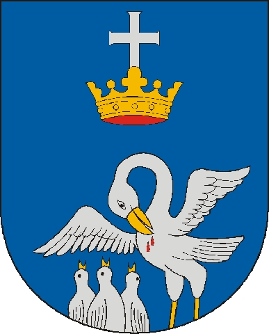 Coat of arms of Galgamácsa, Hungary